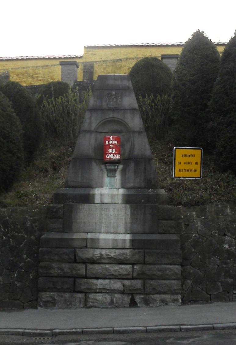 The count Eugene Goblet monument in Court-Saint-Etienne during the bronze bust renovation works. Humourous setup on April fools' day 2010. The barrel caption reads "One drum = 100 mugs". The drift is on "mug" being the French translation of "goblet".